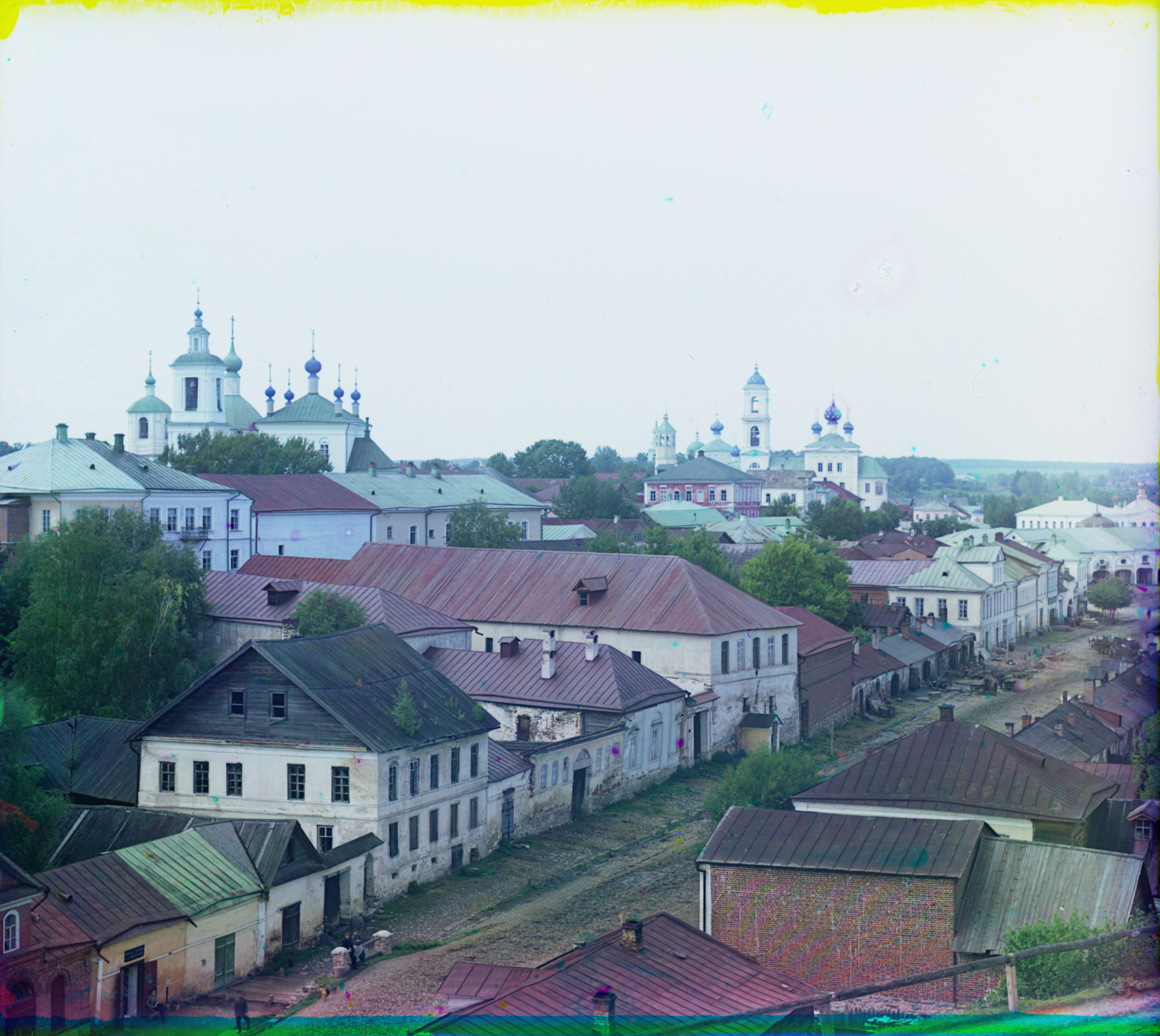 General view of the town of Torzhok in the early 20th century.